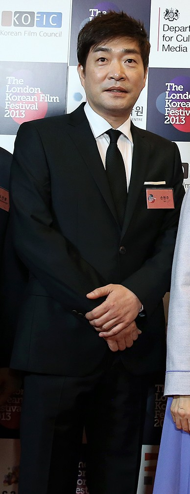 The London Korean Film Festival 2013 President Park Geun-hye (middle) takes a photo with Korean and British government officials and Korean actors at a special screening during the London Korean Film Festival 2013. November 6, 2013. London, United Kingdom Ministry of Culture, Sports and Tourism Korean Culture and Information Service JEON HAN 제8회 런던한국영화제 2013.11.06. 런던, 영국 문화체육관광부 해외문화홍보원 코리아넷 전한